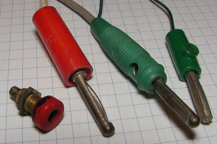 Banana plugs in diverse versions plus an isolated banana jack